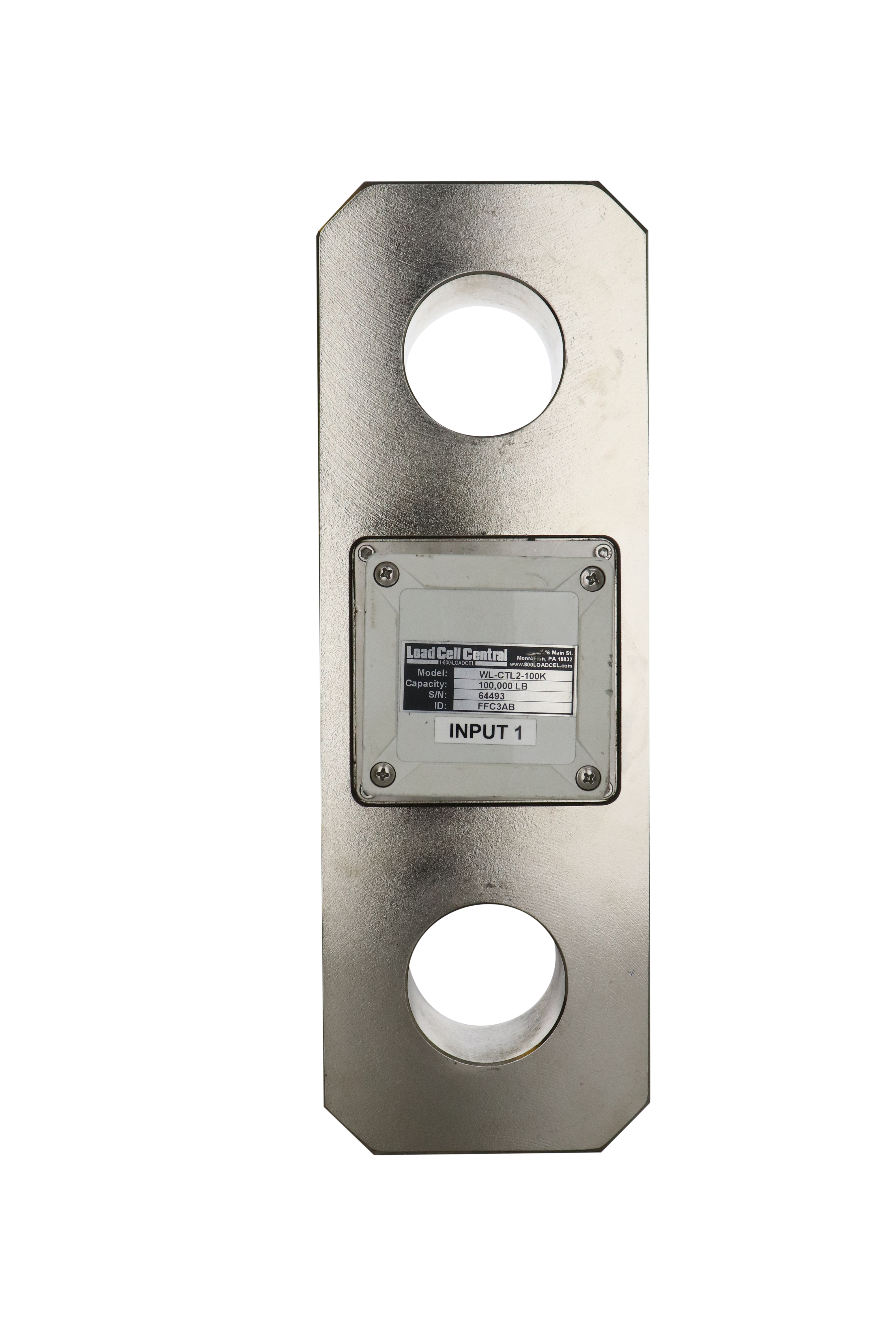 WLCTL2 load cell wireless tension link load cell